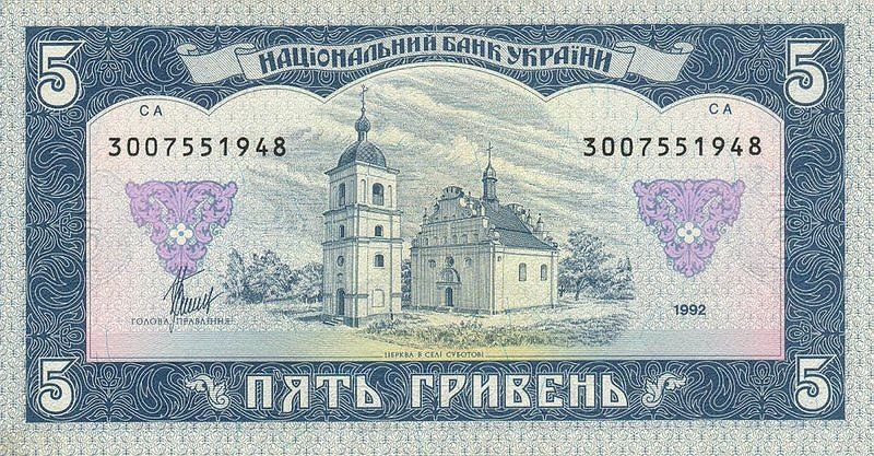 Ukraine 5 Hryvna 1992 reverse